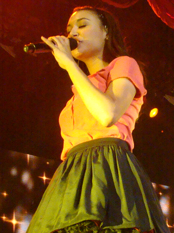 Naya Rivera as Santana Lopez on the Glee Live! In Concert! tour.